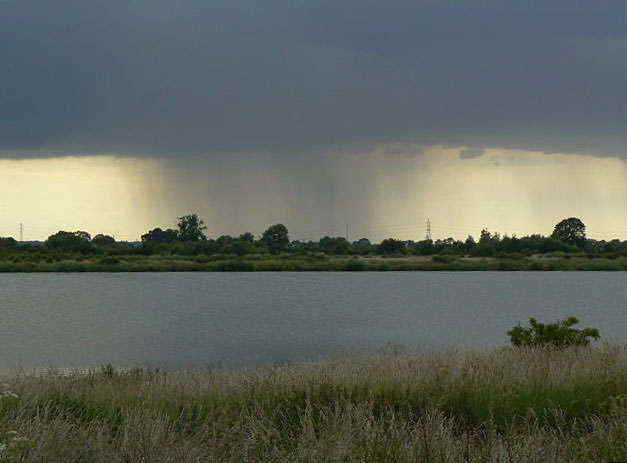 The not-so-gentle rain from heaven Thunder shower to the west of Long Eaton, seen from the bank of the River Trent across the old gravel workings.